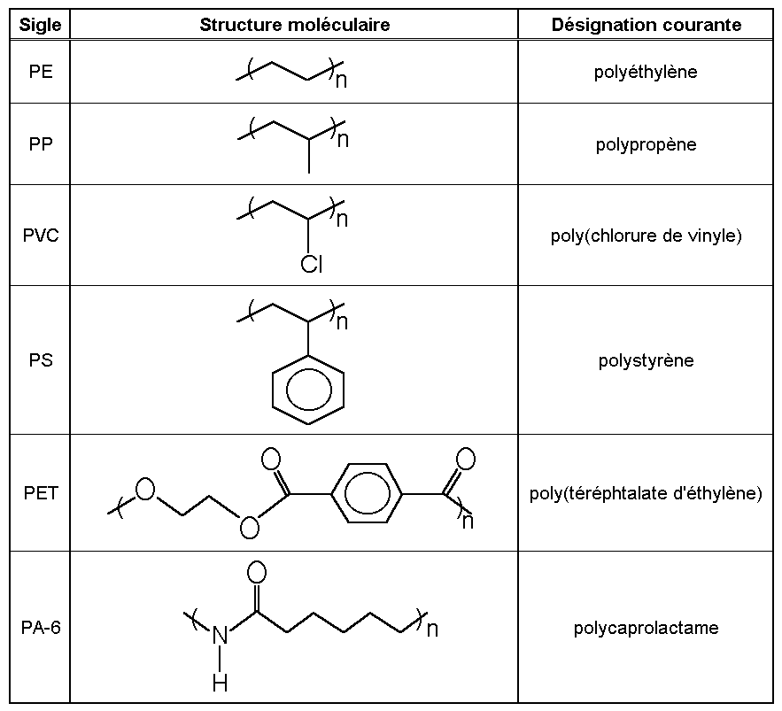 annual global production of these six thermoplastic polymers ranges from 54 (case of PE) to 4 (PA-6) million tonnes in 2001.